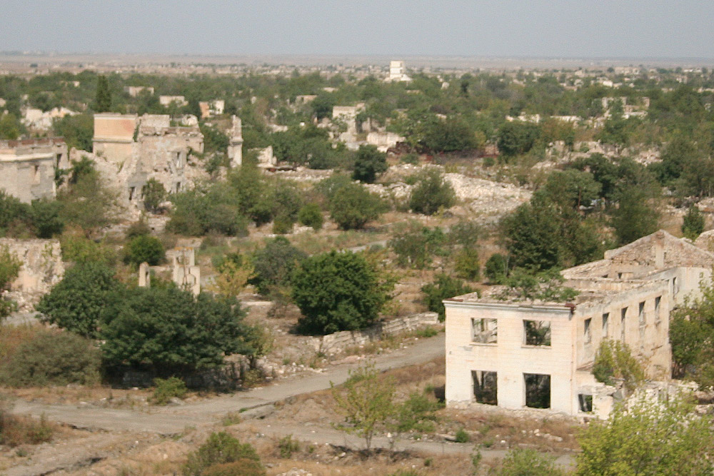 Agdam Ghost Town in Nagorno Karabakh.